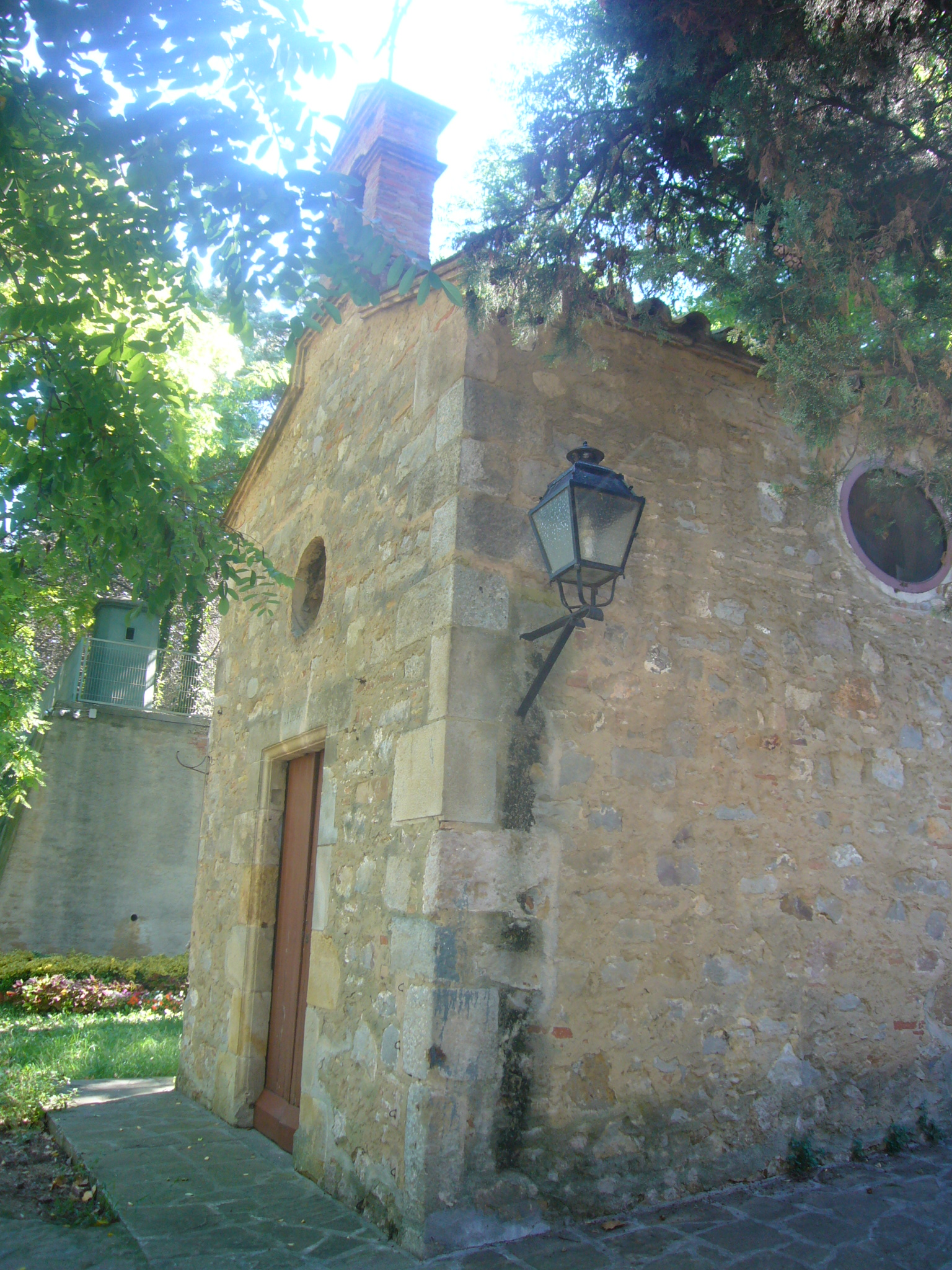 Santa Madrona chapel, at the Palau Albéniz, in Montjuïc, Barcelona.